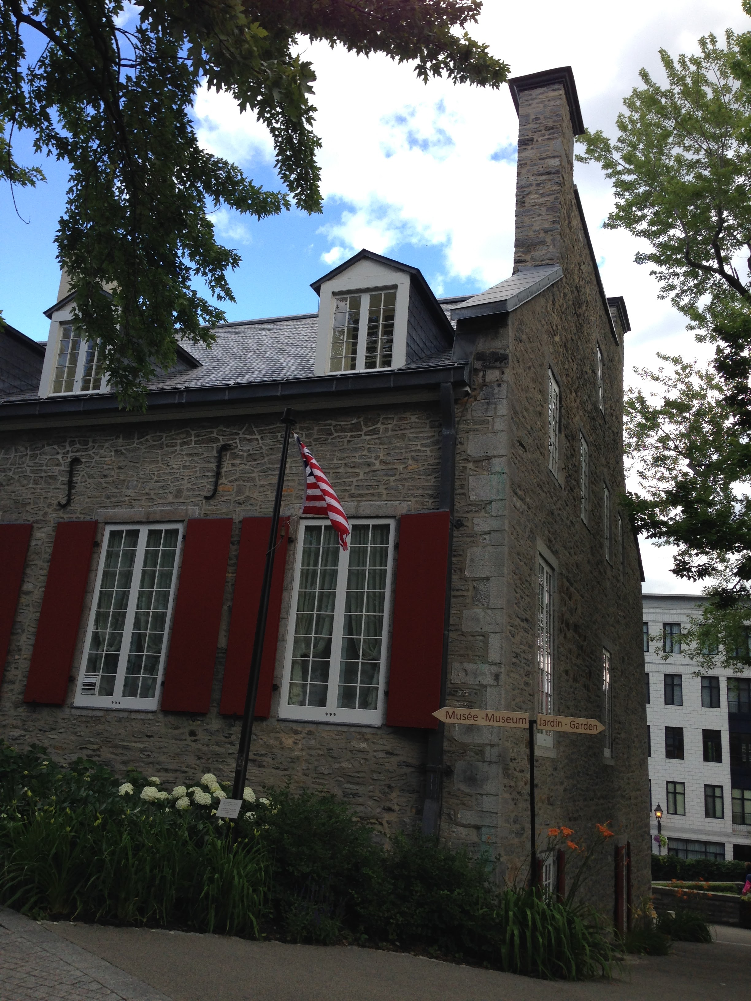 Château Ramezay, in Old Montréal